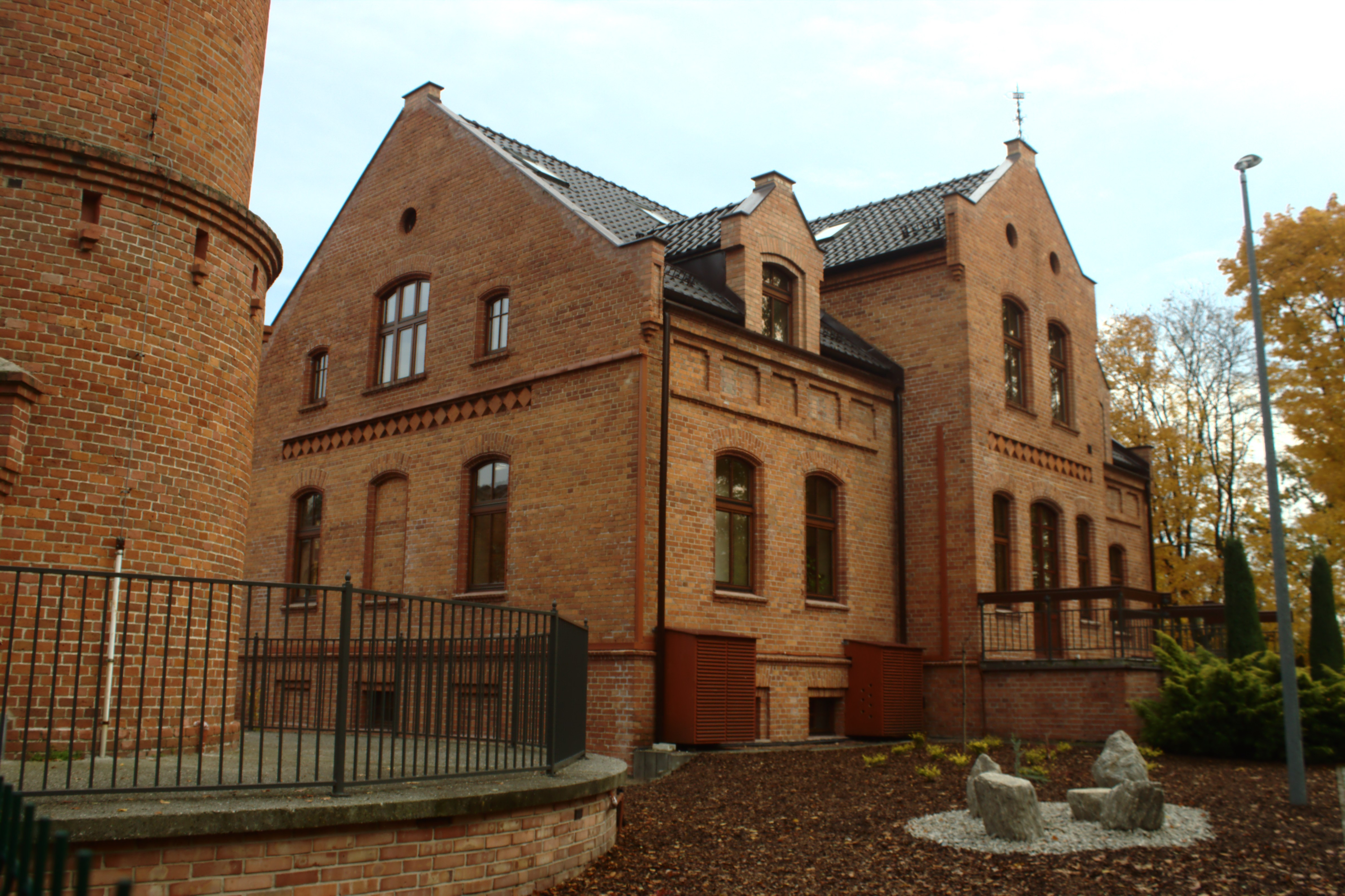 Forest District Kędzierzyn near Stara Kuźnia, Poland